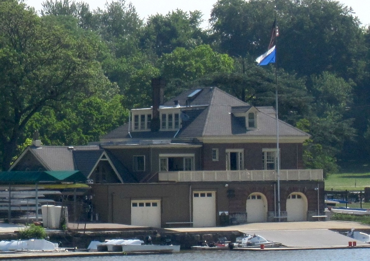 Fairmount Rowing Association, #2-3 Boathouse Row, Philadelphia, PA (1871-1892)